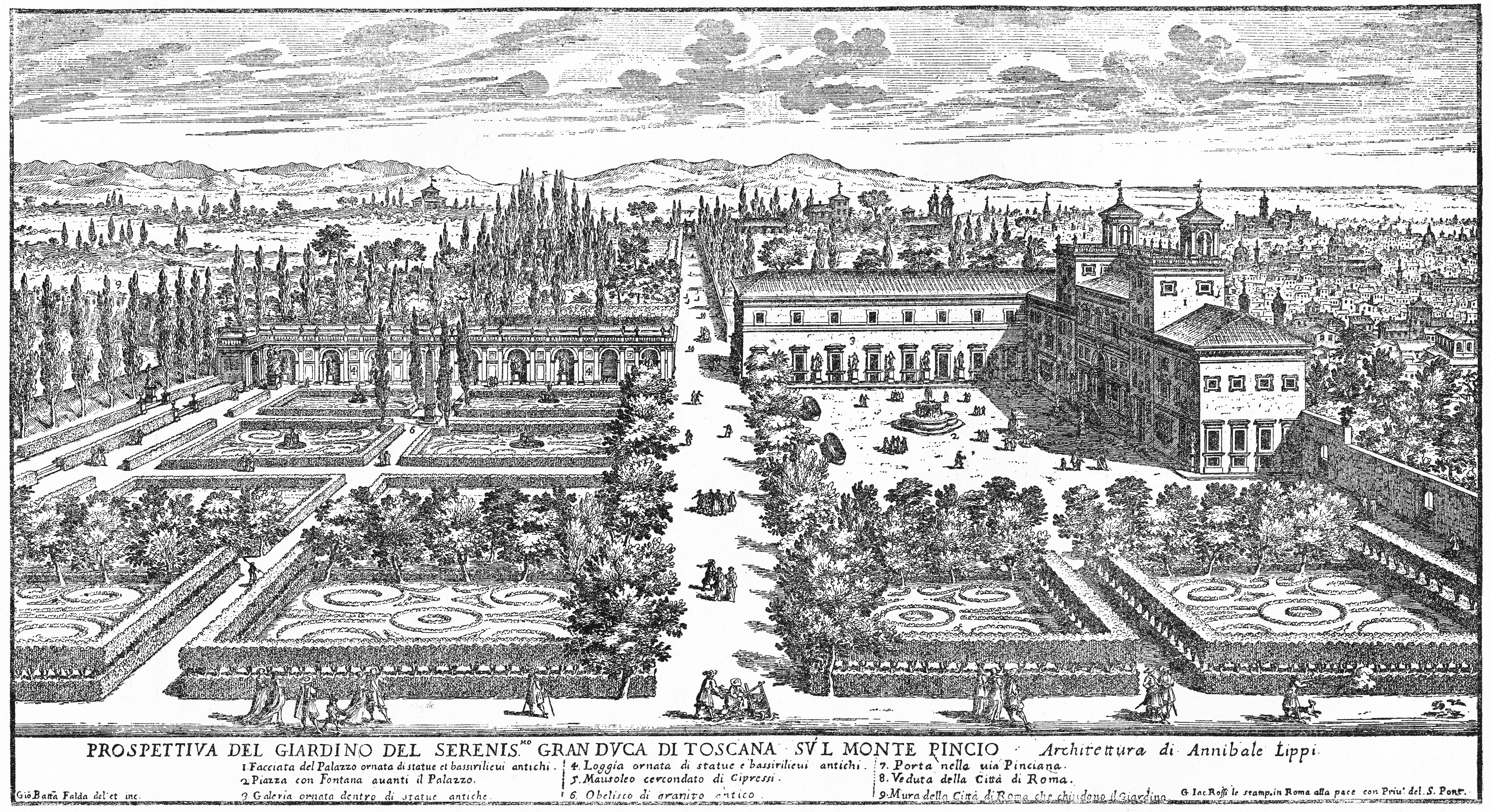 View of the Villa Medici and its garden in Rome (original title: Prospettiva del giardino del Serenis(simo) Gran Duca di Toscana sul Monte Pincio), engraving by Giovanni Battista Falda.